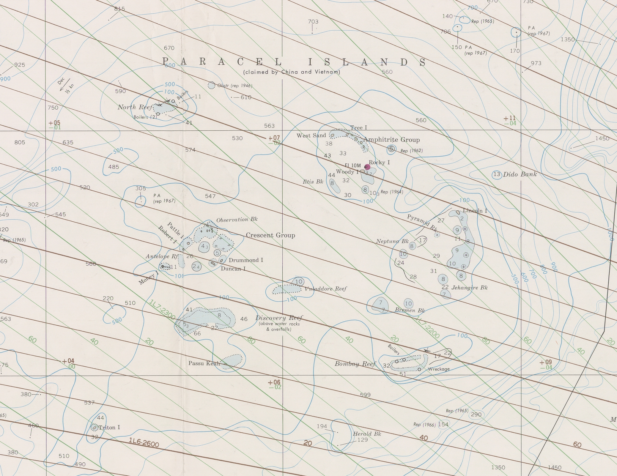 Nautical Chart of the northern South China Sea, with Paracel Islands and Macclesfield Bank (most)